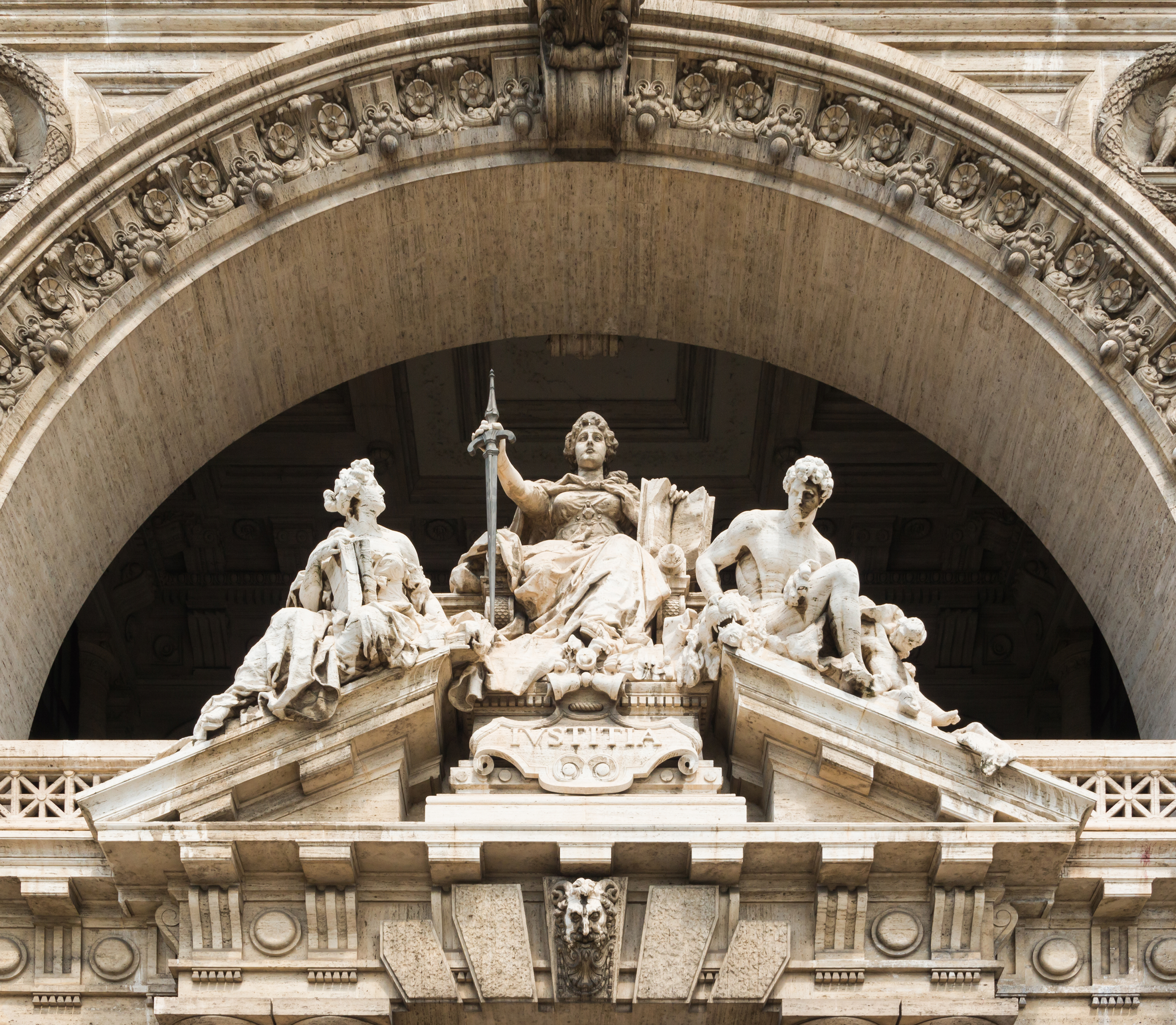 Detail of the pediment of the courthouse, Rome, Italy